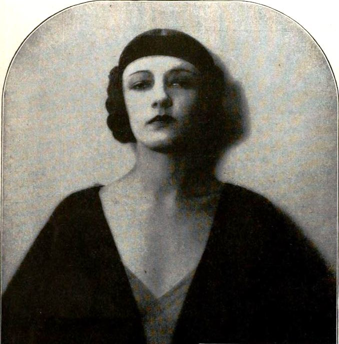 Natacha Rambova on page 68 of the November 1922 Photoplay.